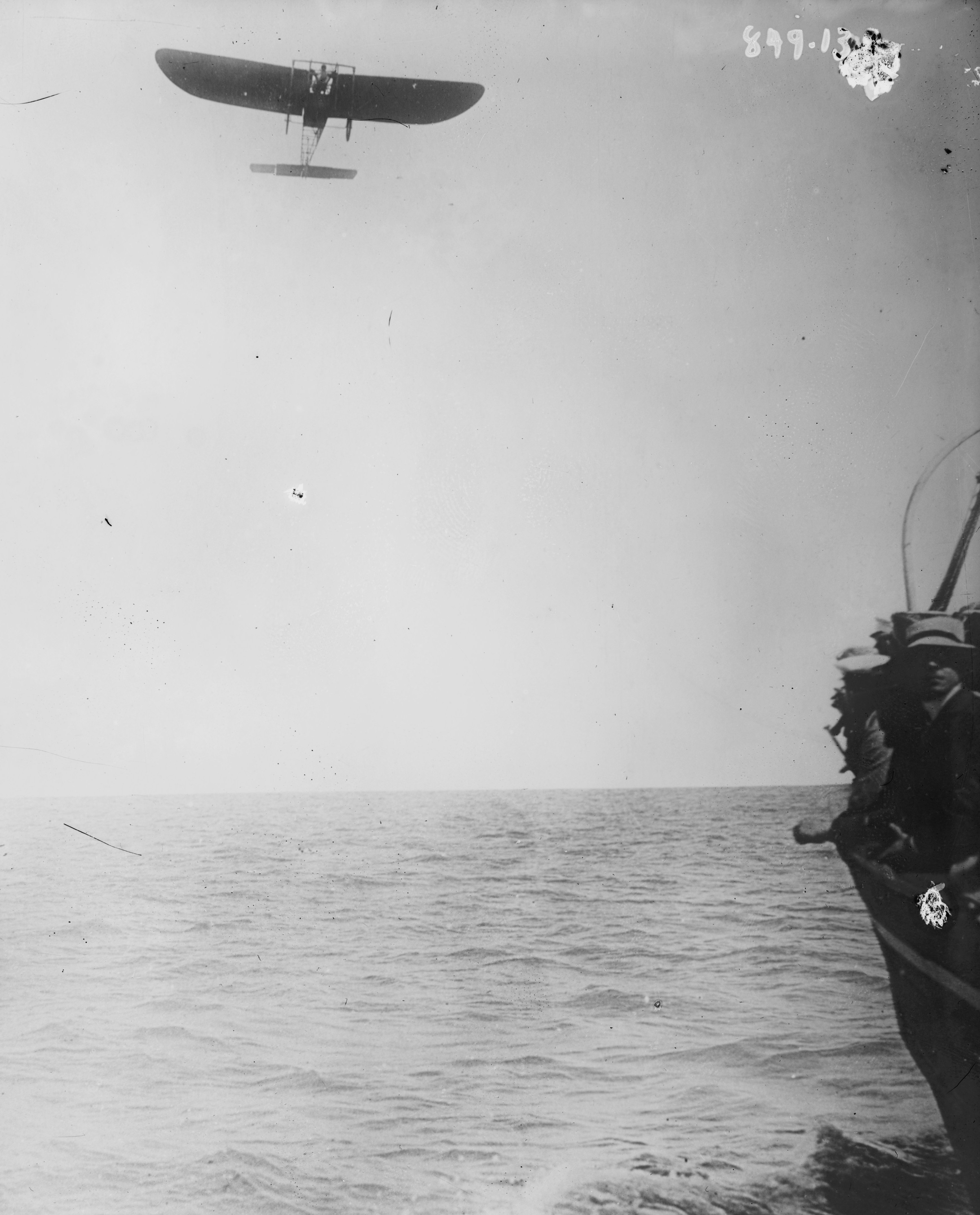 Title: Bleriot in flying machine, in mid-channel Abstract/medium: 1 negative : glass ; 5 x 7 in. or smaller.